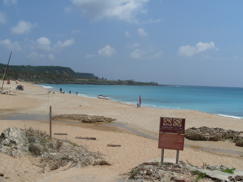 Baishawan beach, south of Taiwan